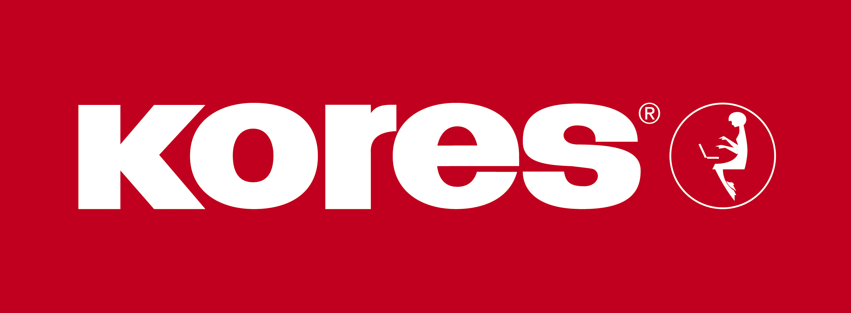 Kores Logo